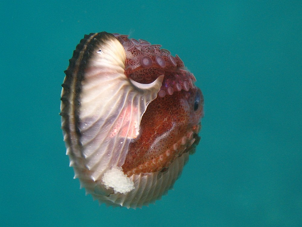 Female Argonauta argo with severely damaged eggcase and eggs, encountered at a depth of about 20 cm in a cove at the southern coast of Turkey.